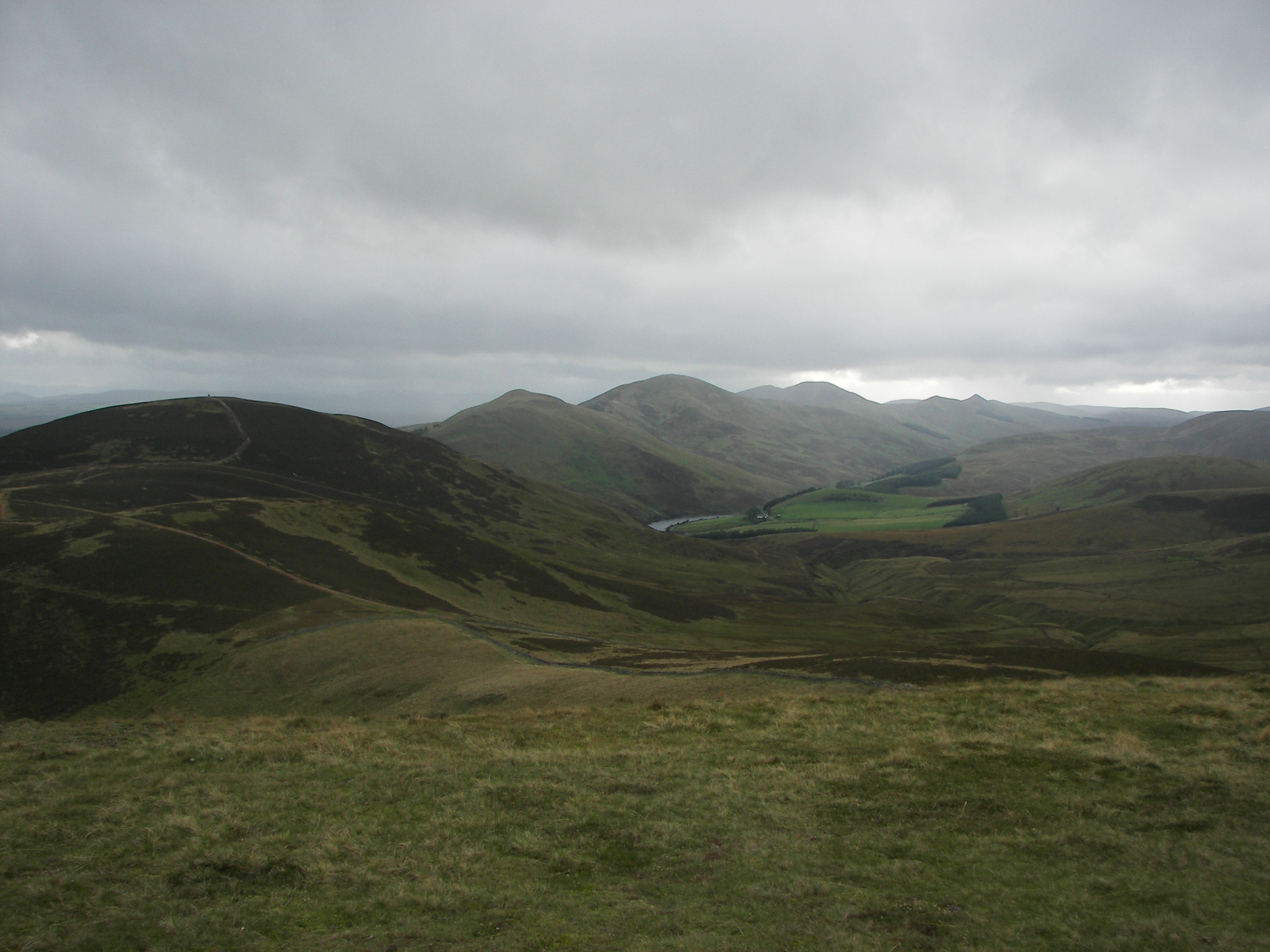 Pentland Hills in Midlothian, Scotland. Photo taken from the summit of Allermuir Hill, looking to the southwest